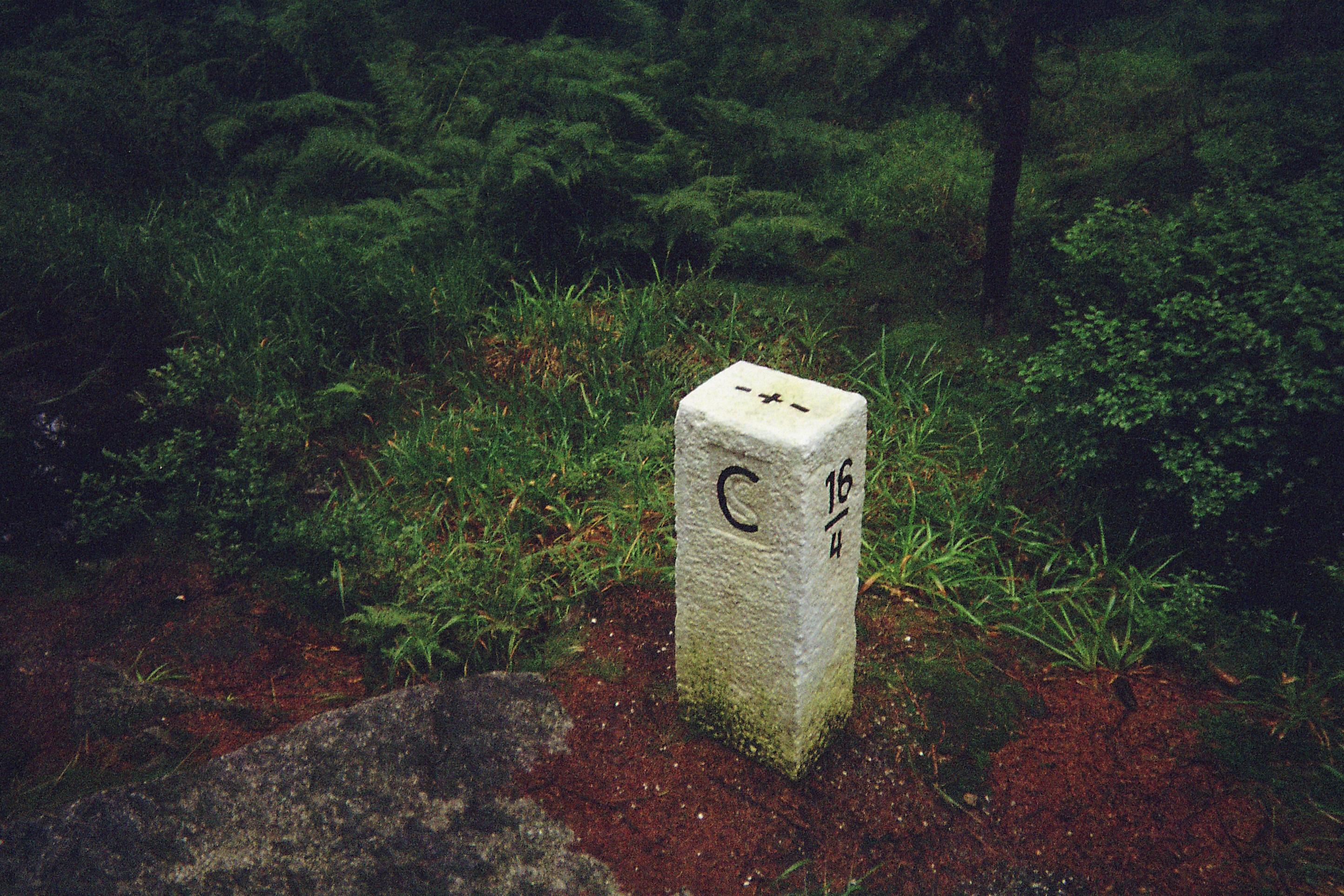 State Border Czech republic - Germany